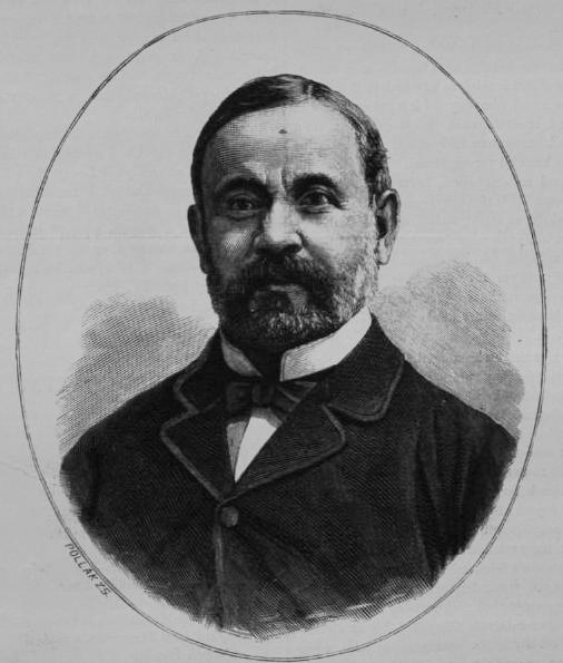 Portrait of Henrik Lévay